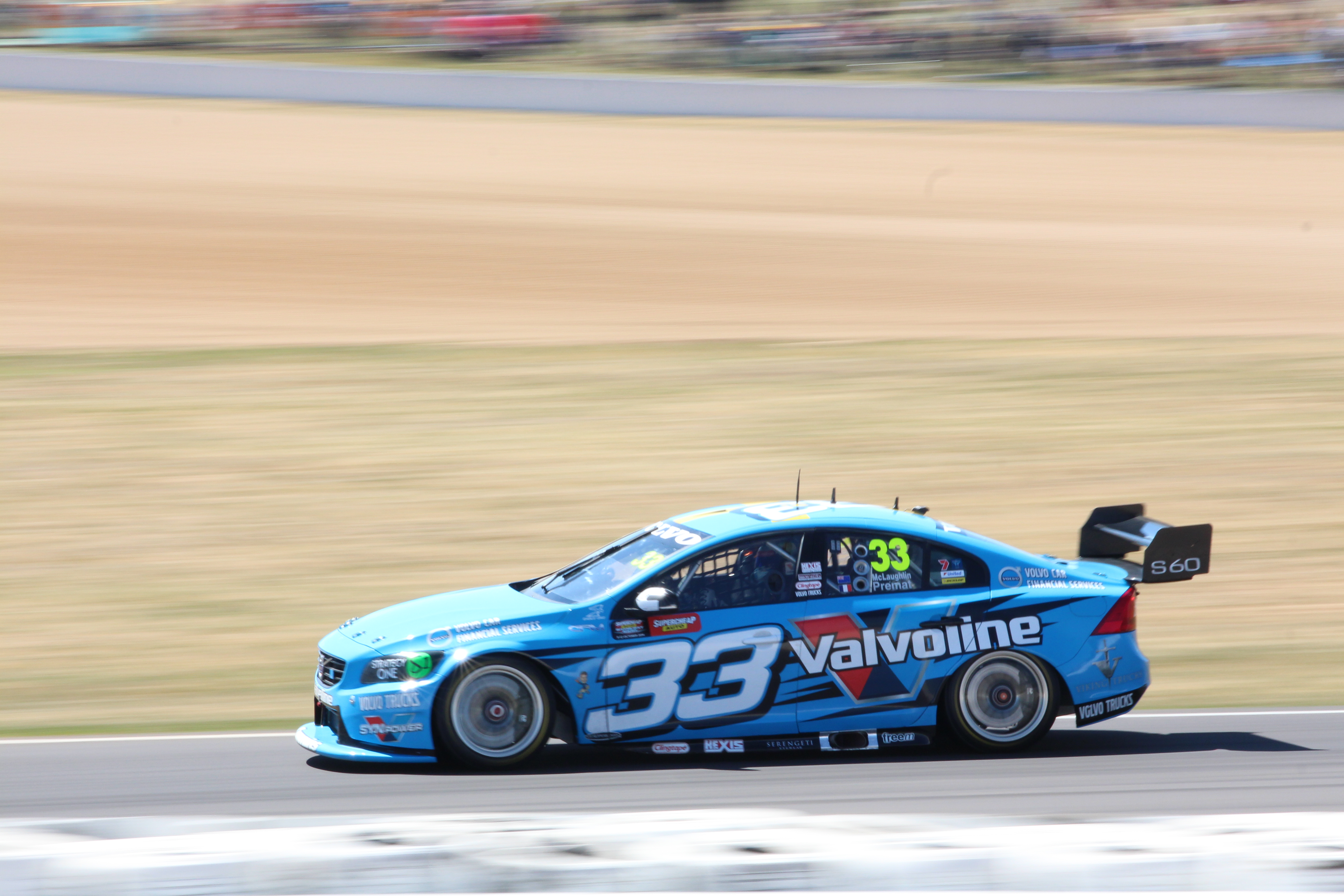 The #33 Volvo S60 V8 Supercar of Scott McLaughlin and Alexandre Prémat at the 2014 Bathurst 1000 at Mount Panorama.